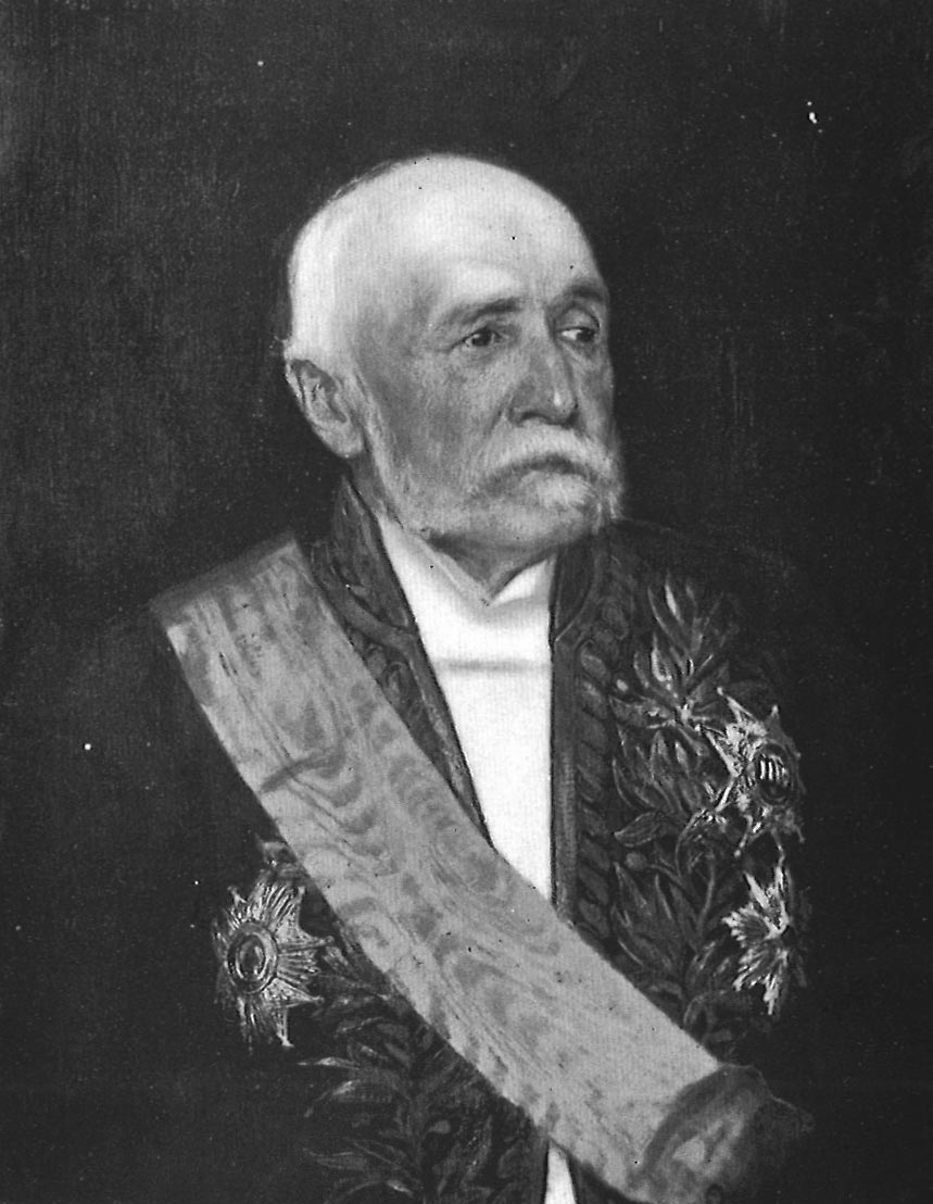 Casimir Lewenhaupt (1827-1905), Swedish count, courtier and member of parliament.